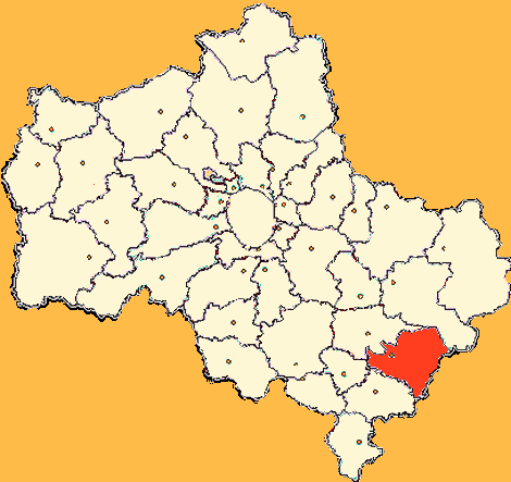 Moscow Region map by Al Silonov